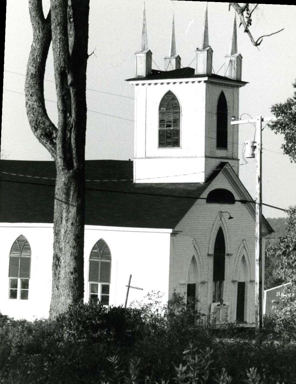 Dixmont Corner Church (aka Dixmont Methodist Church), Dixmont, Maine, U.S.A.; Designed and built by Rowland Tyler, 1835; Listed on National Register of Historic Places, 1983